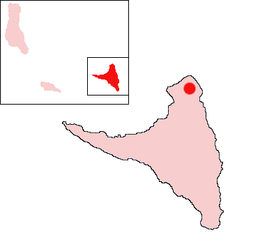 Jimilimé, Anjouan, Comoros Location Map; created with the GIMP. Made by User:Acntx.